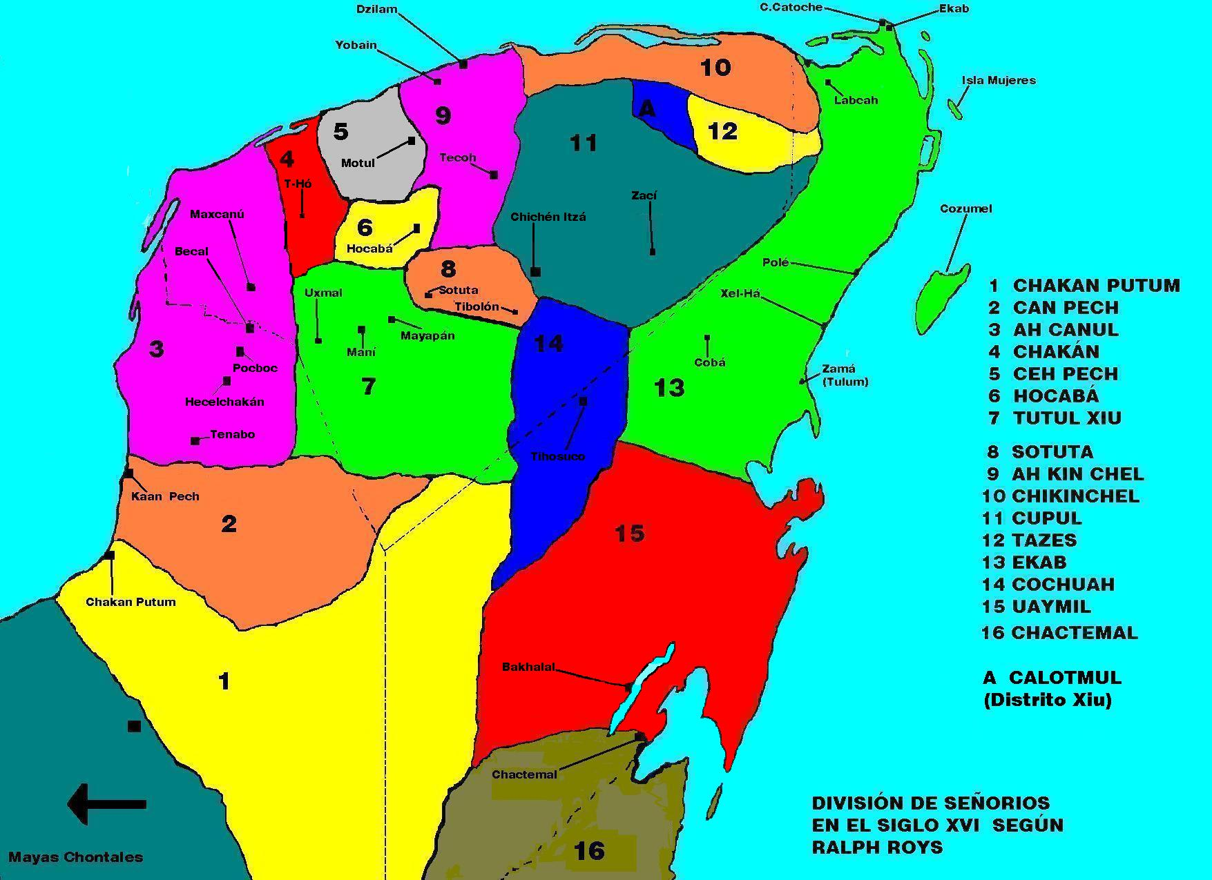 test number 1, mayas